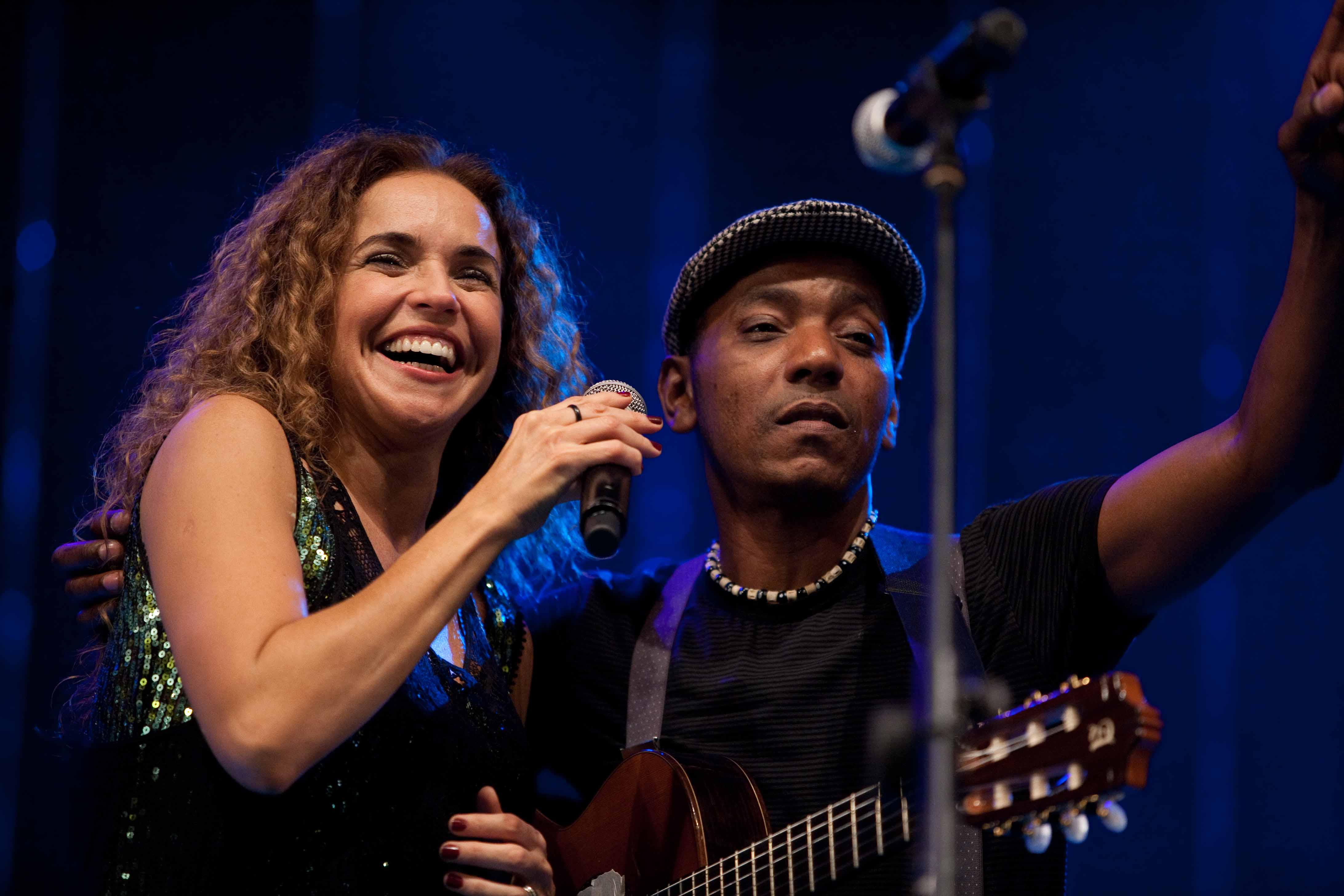 Daniela Mercury and Tito Paris in celebration of 35th anniversary of independence Cape Verde.